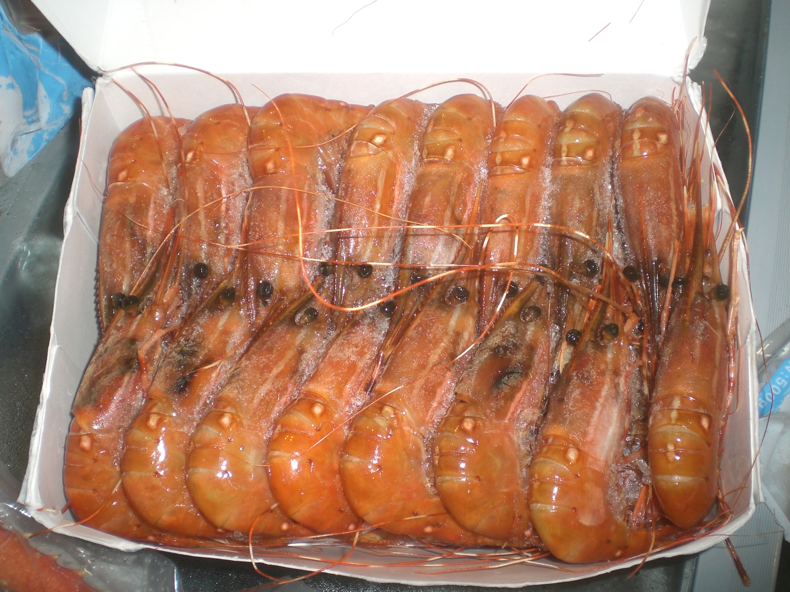 灣仔 香港美食博覽 位於香港會議展覽中心